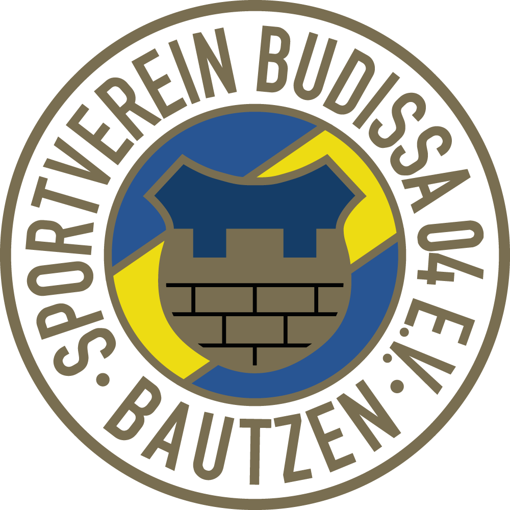 Historic logo of german sport club SV Budissa Bautzen (1907-1945)